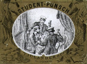 Studentpunsch